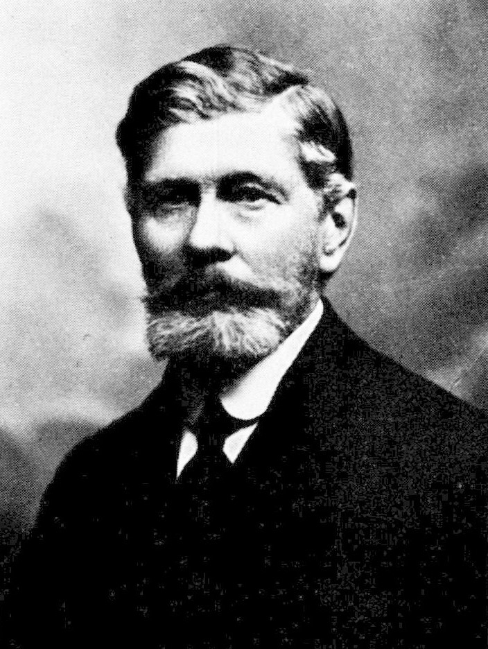 Swedish folklorist Nils Edvard Hammarstedt (1861-1939)